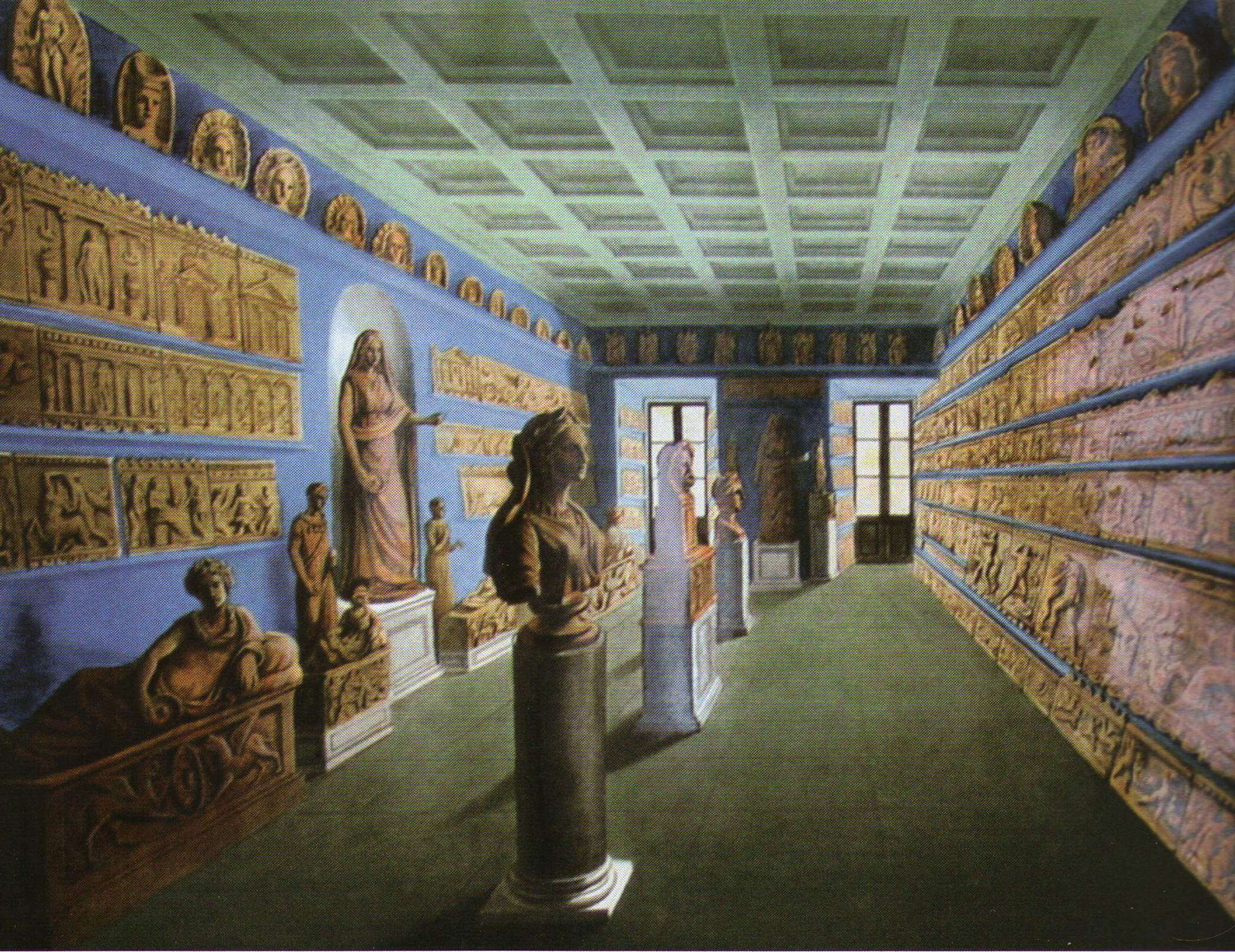 Image from the Book "Antiche opere in plastica" from Giampietro Campana (2nd ed. 1851)